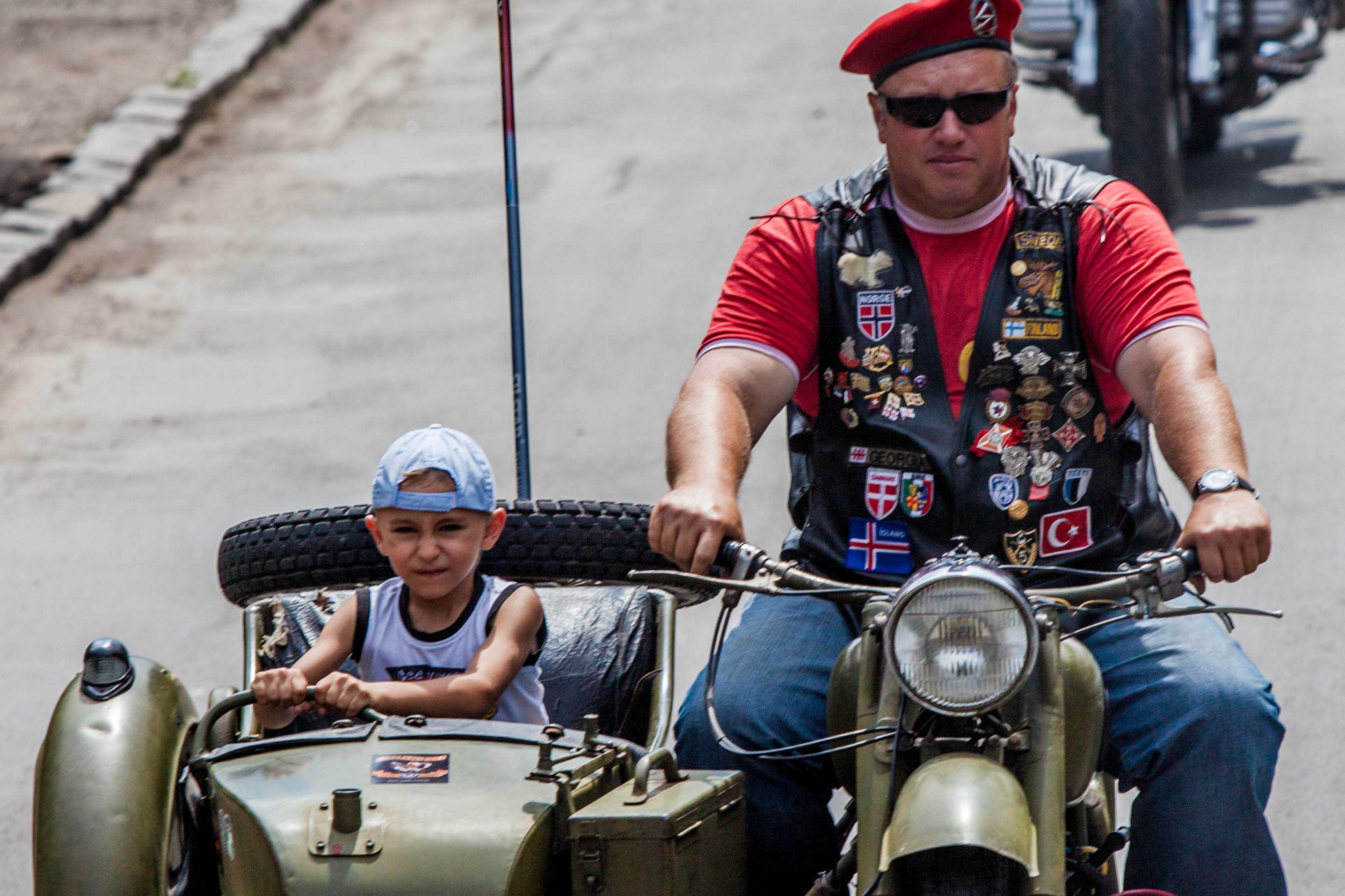 Holding tight, during the bikers parade in Uzhgorod, Ukrain